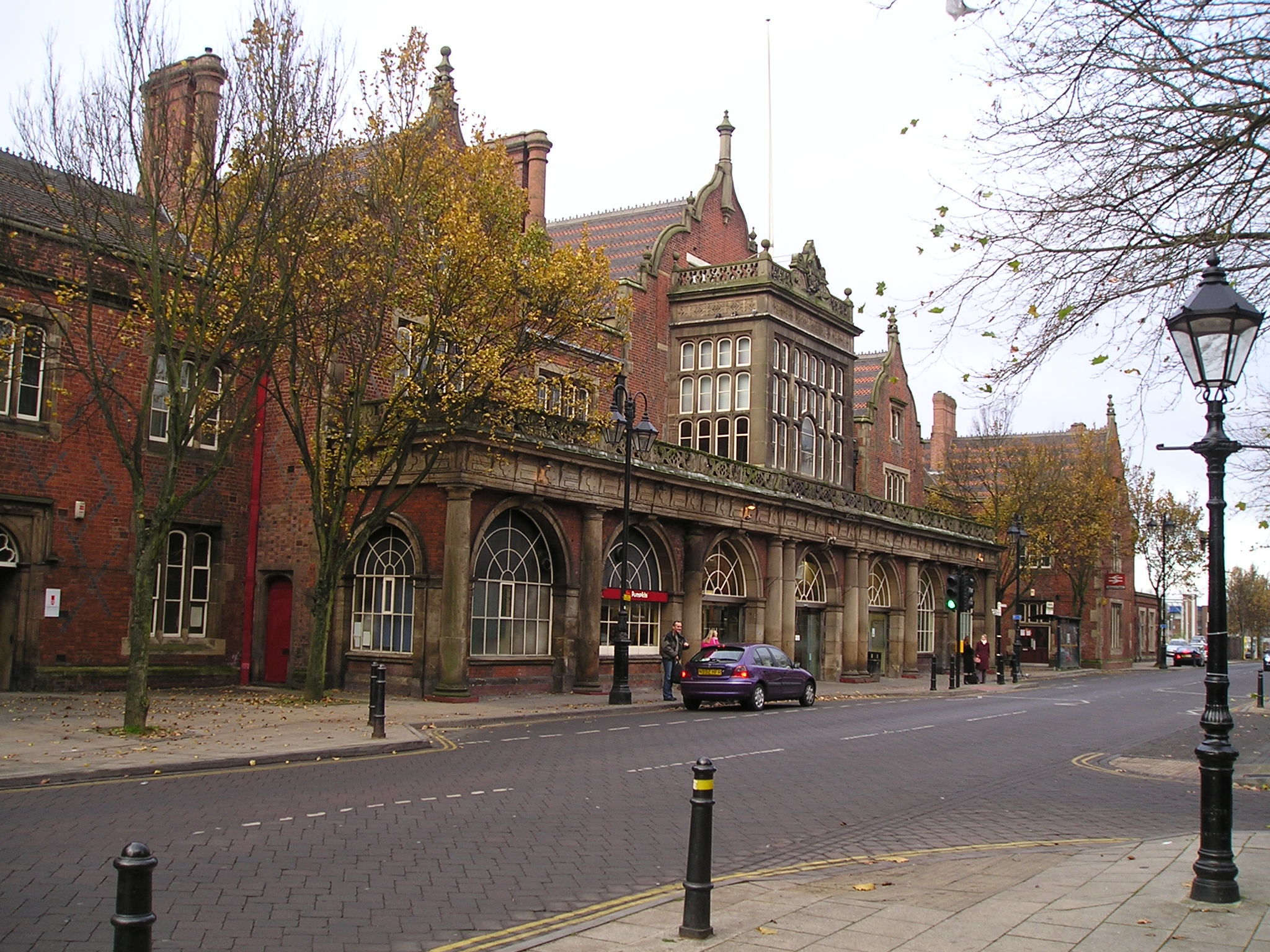 Photograph taken by the author, Noel Walley on November 16th 2004.